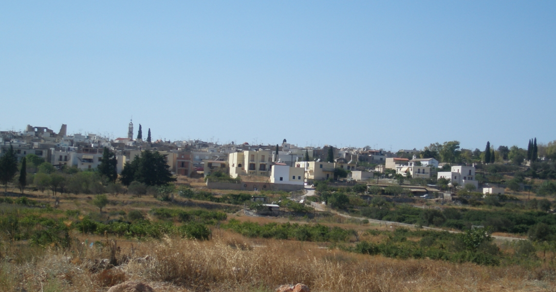 View of the village of Pyrgi at Chios island